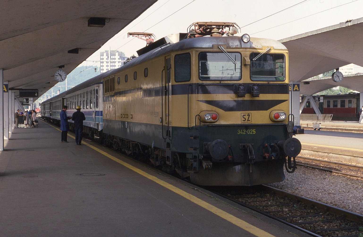 Built by Ansaldo in Italy, many of these locos have been bought by private operators in Italy. Seen in the days when the entire fleets was still in ownership by SŽ, 342.025 was photographed at Ljubljana on 23 September 1994.